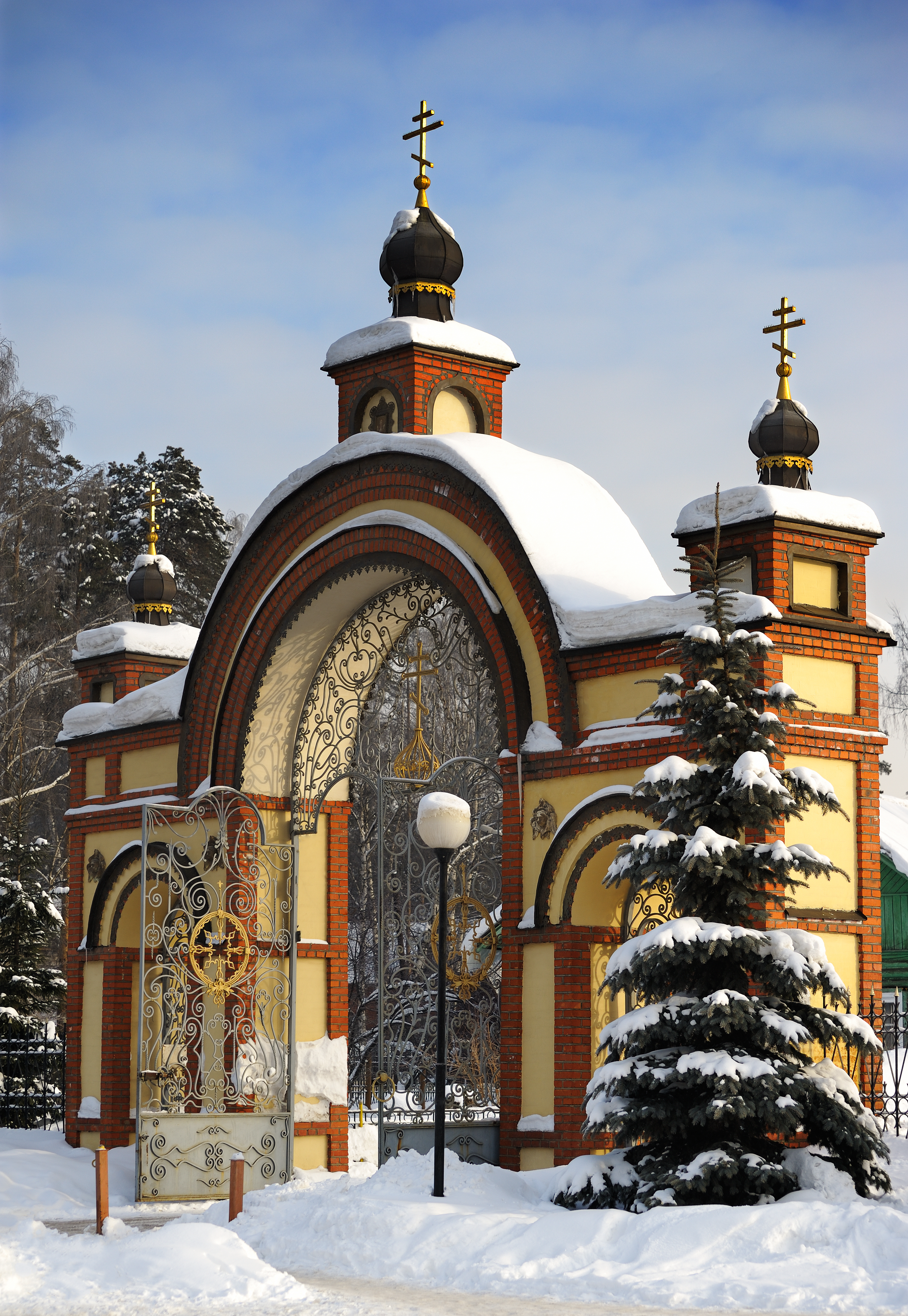 Gateway to saints Peter and Paul Church (in the Russian urban village of Ilinskiy, Ramensky District, Moscow Oblast). The church for the sake of apostles Peter and Pavel was under construction with 1912 on 1915 under the project of architect S. Barkova. In 1928 the temple has been destroyed. Now the new temple under the project of architect D. S .Sokolova is erected. Approximate time of building of 1994–1996.